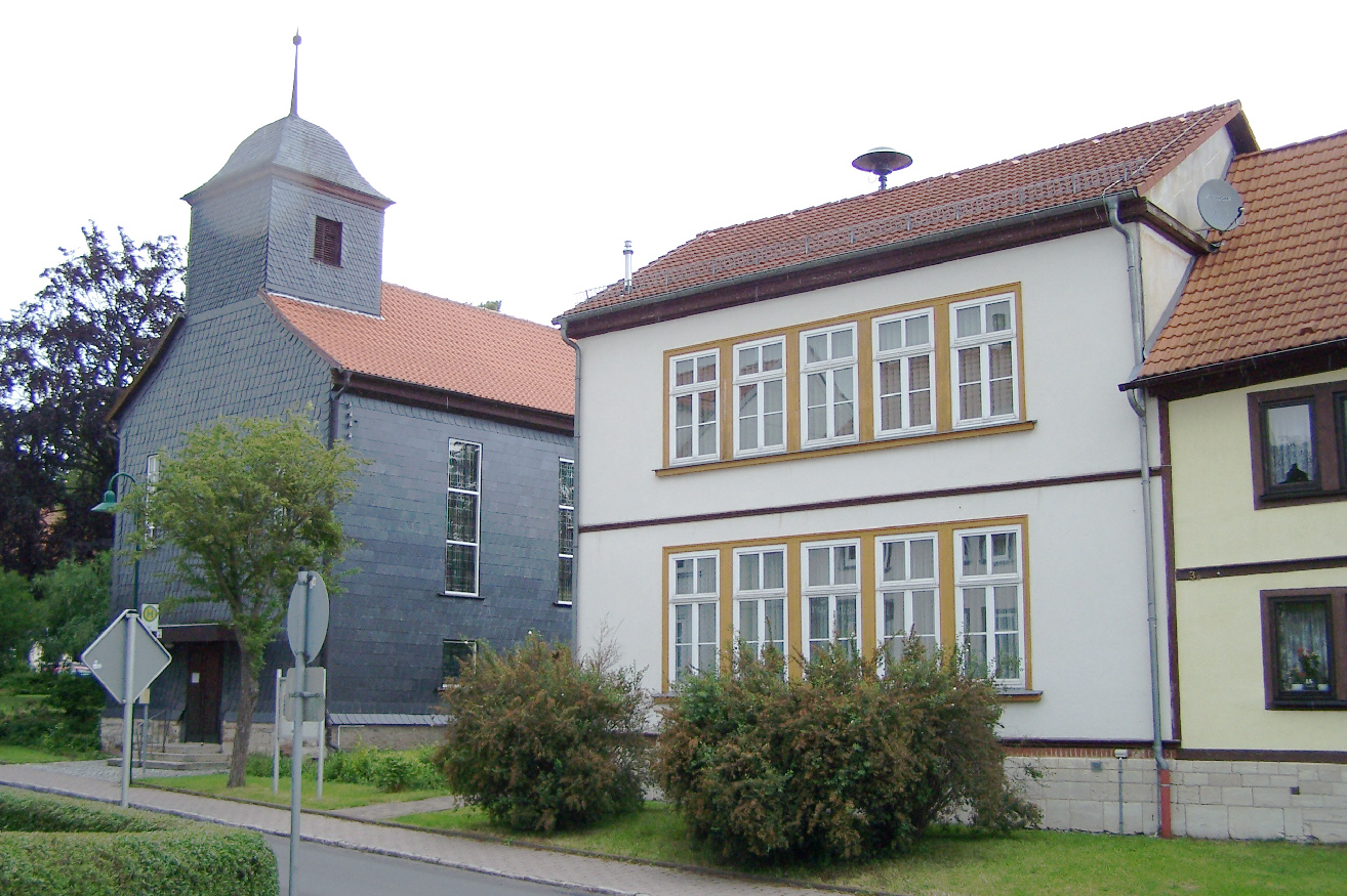 In Schnepfenthal village.